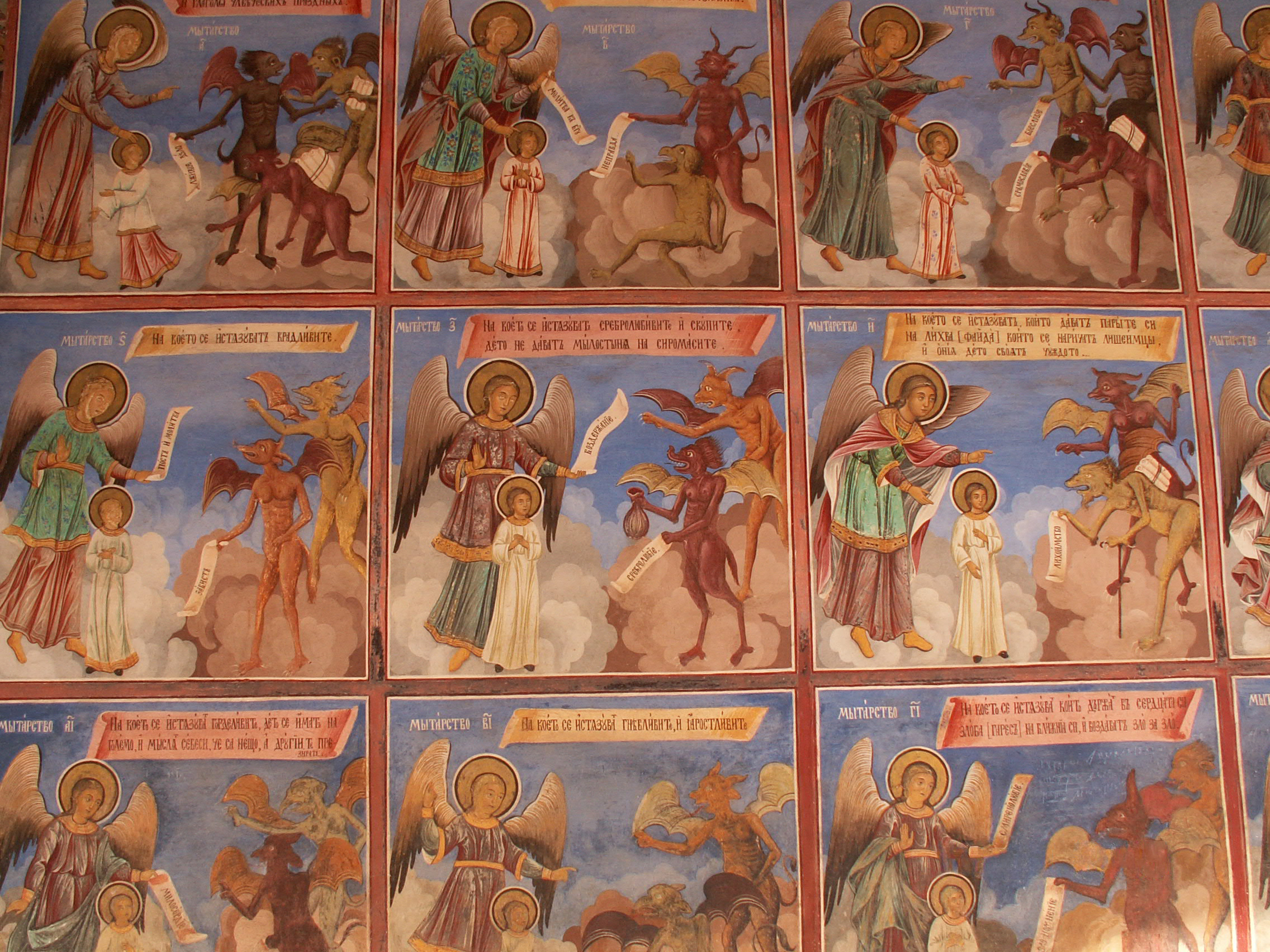 Wall-paintings on wall of the Main Church - Rila monastery